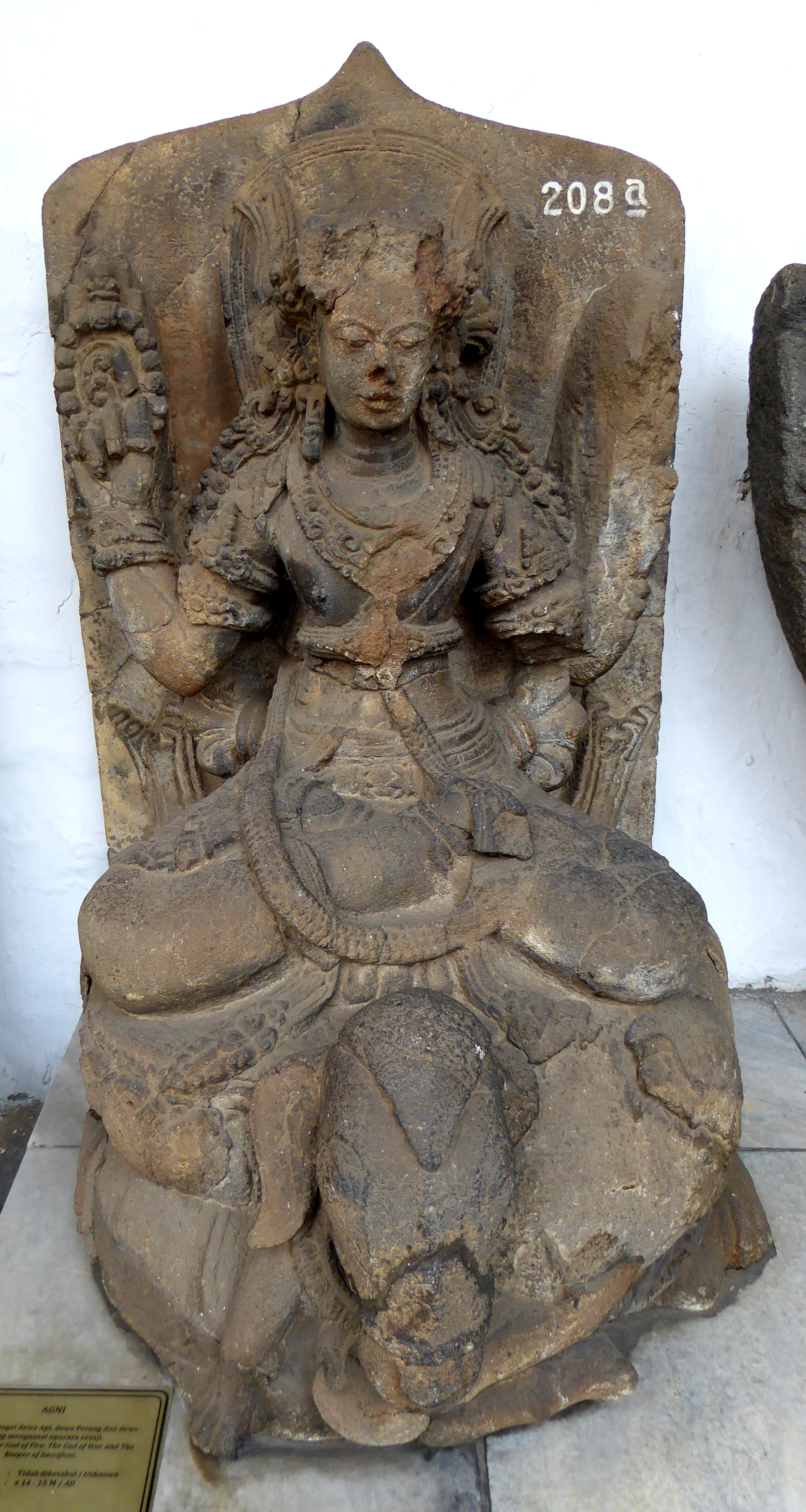 107 Agni, Unknown, 14-15th c, National Museum, Jakarta, Java